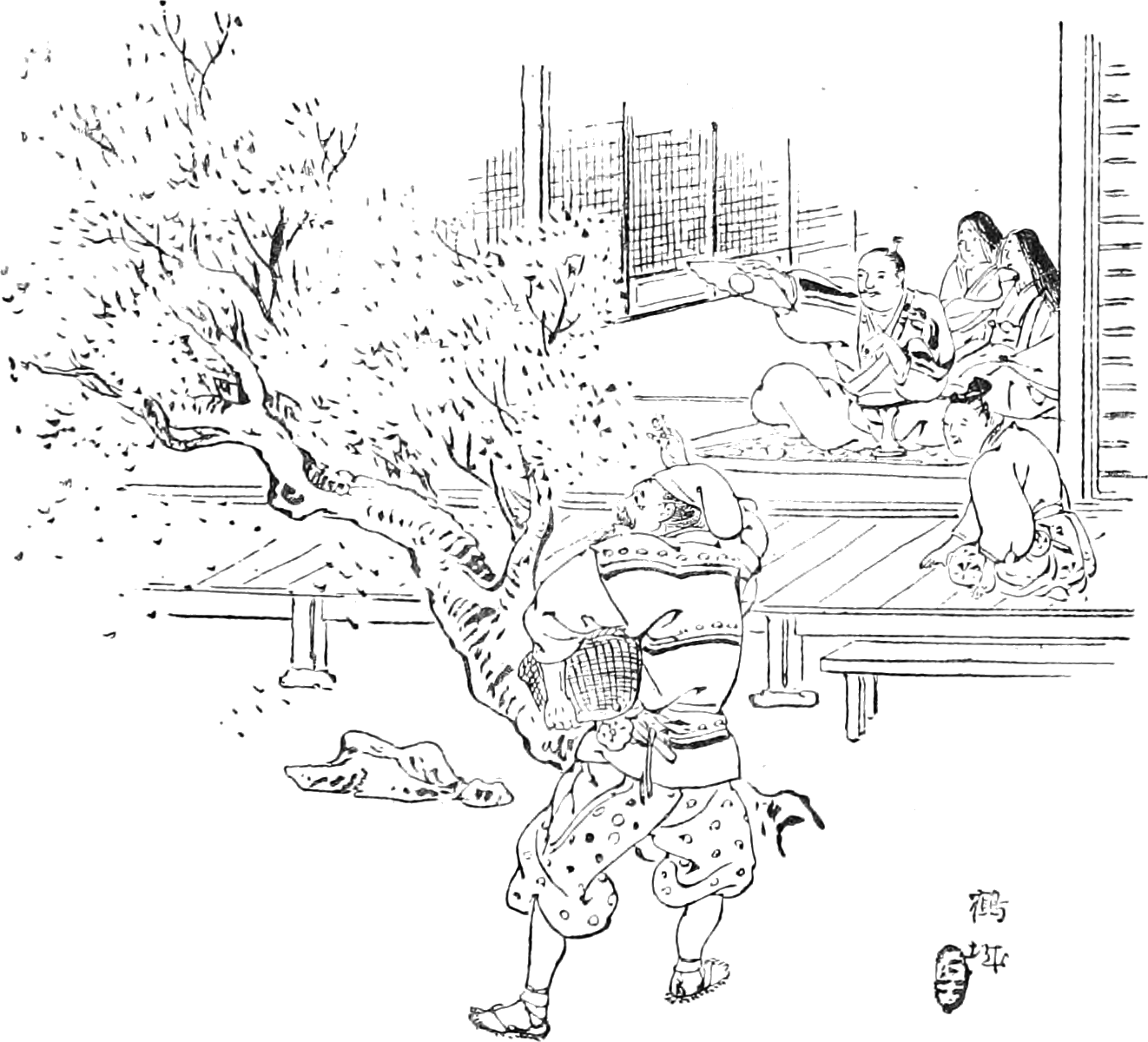 Image from The Japanese Fairy Book